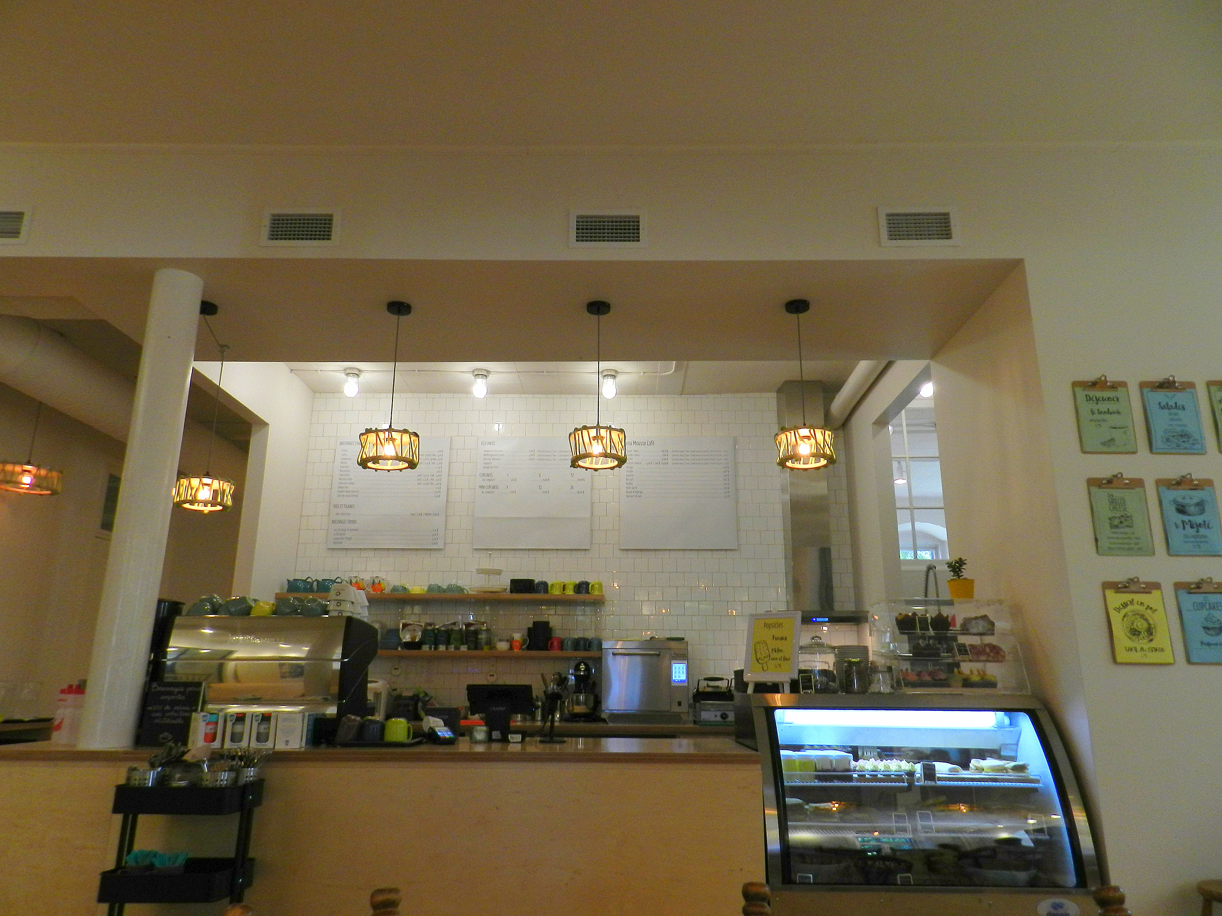 Convent of the Little Franciscans of Mary in Baie Saint-Paul in Quebec